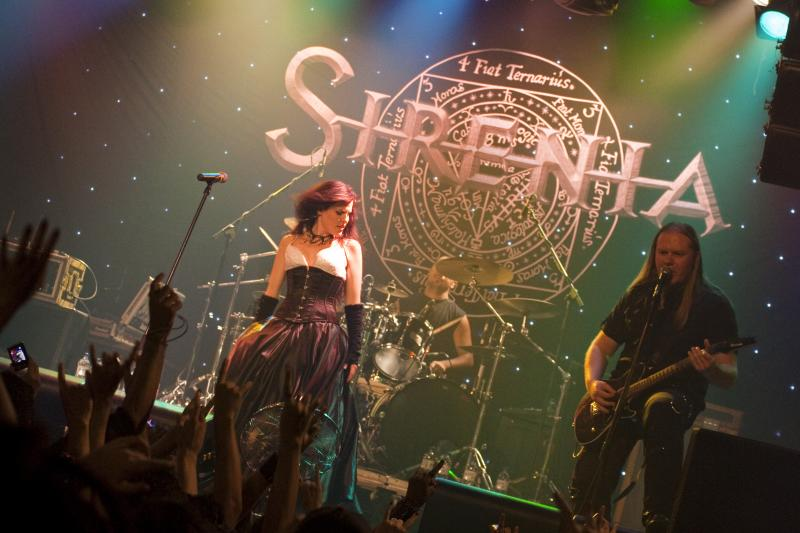 Sirenia - Gothic metal band